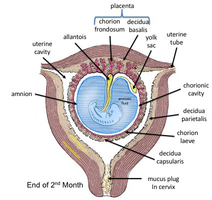 Section of the uterus at week 8 of development showing the subdivisions of the chorion and decidua and their relationships to the embryo, yolk sac, allantois and amnion.